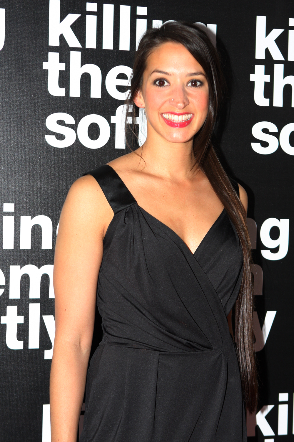 Leah de Niese, Killing Then Softly movie premiere at Dendy Opera Quays